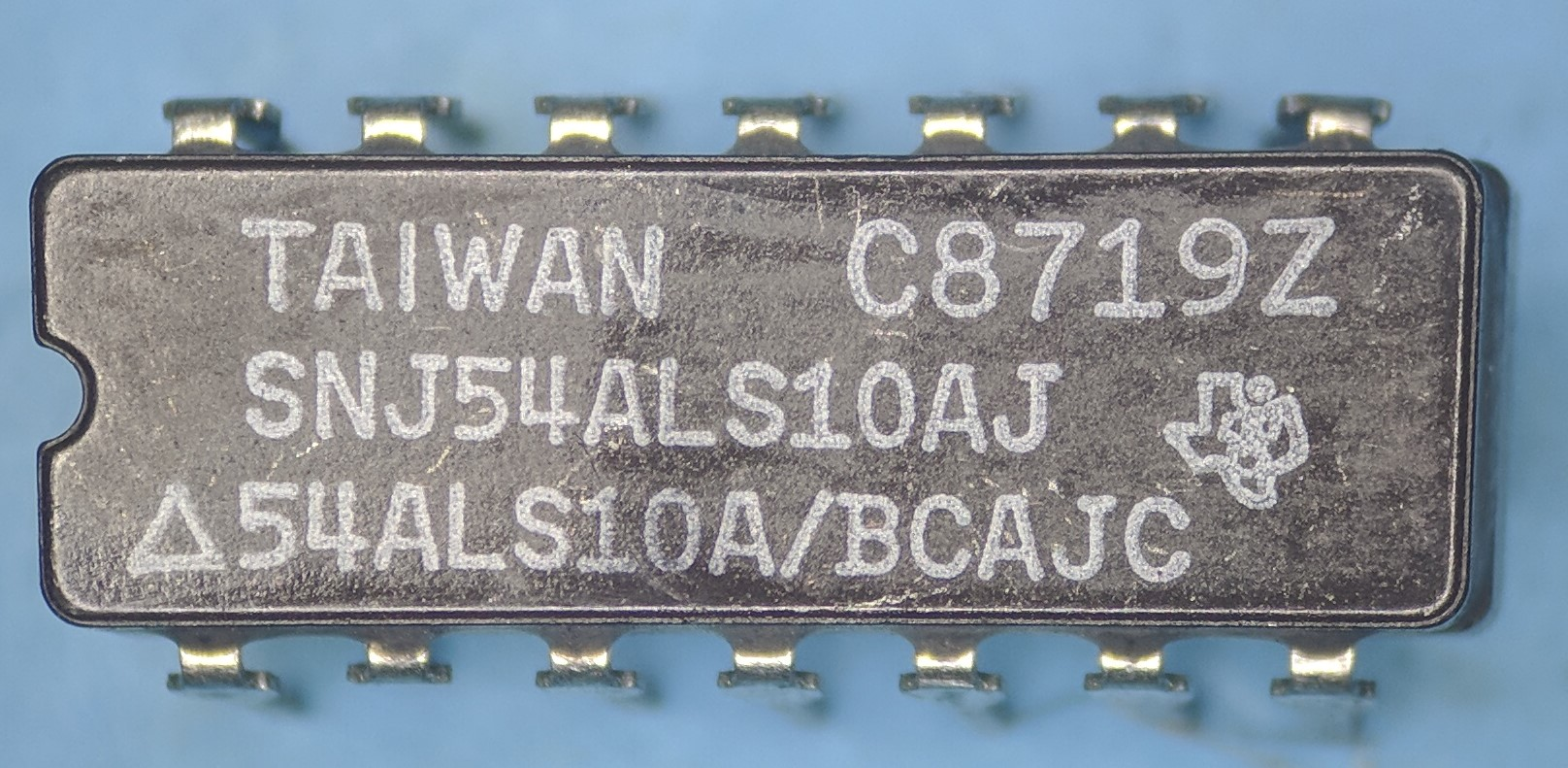 Package top of a Texas Instruments 54ALS10, datecode 8719.